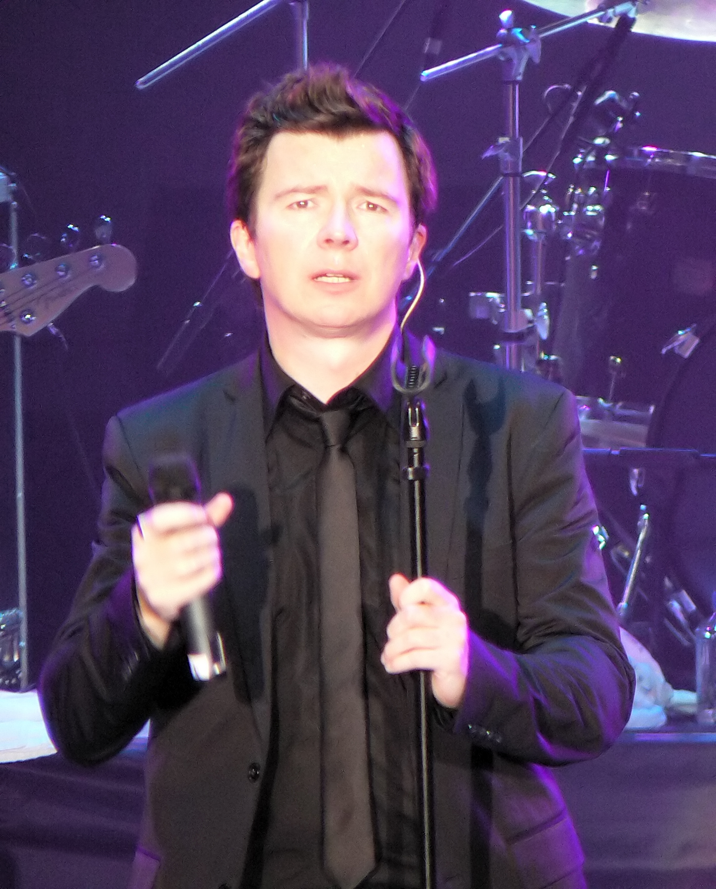 Rick Astley Live in Singapore